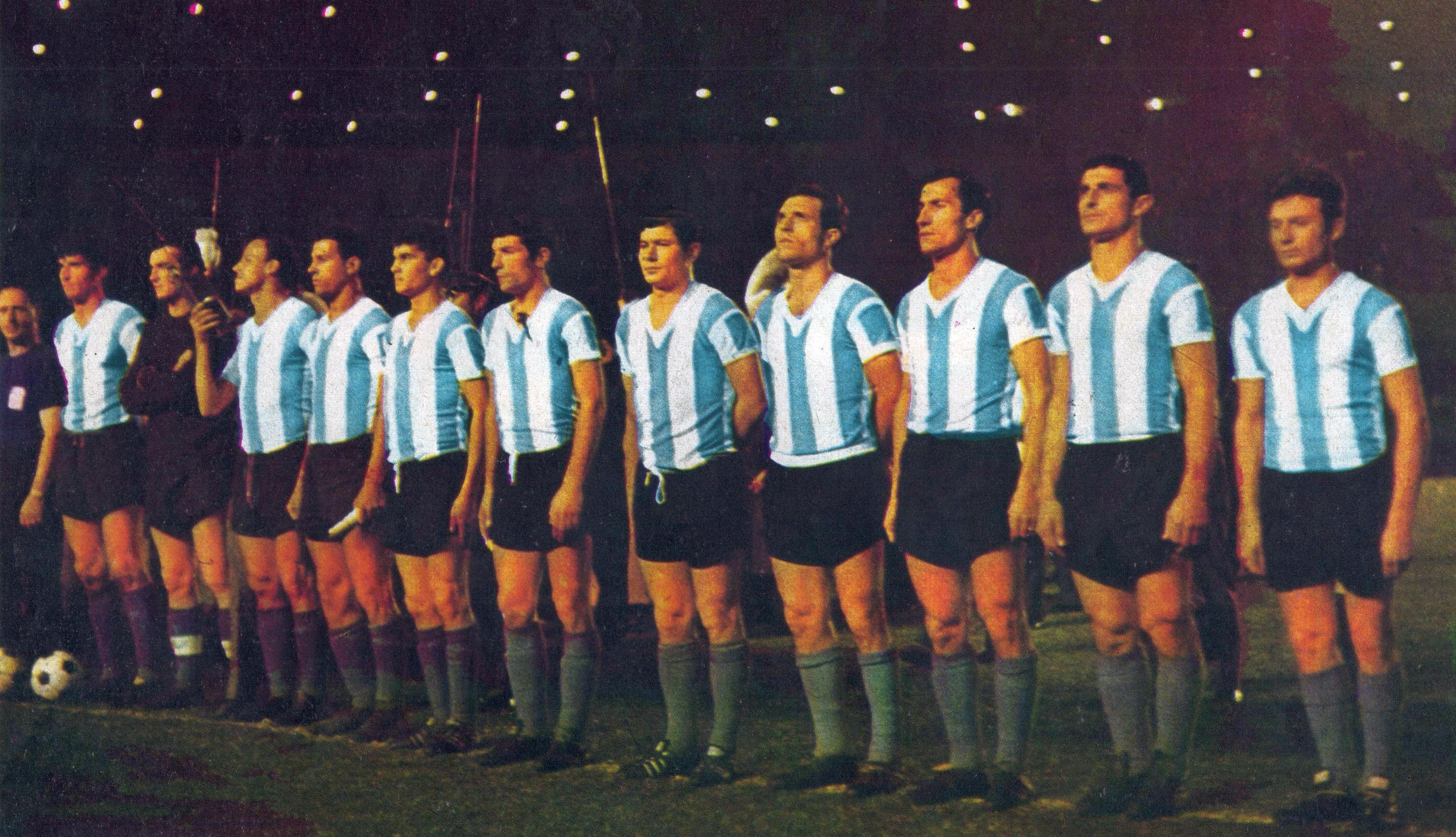 Argentina national football team before playing against England on 6 June 1964 in Río de Janeiro (Maracanã) at the Taca das Nacoes held in Brazil.